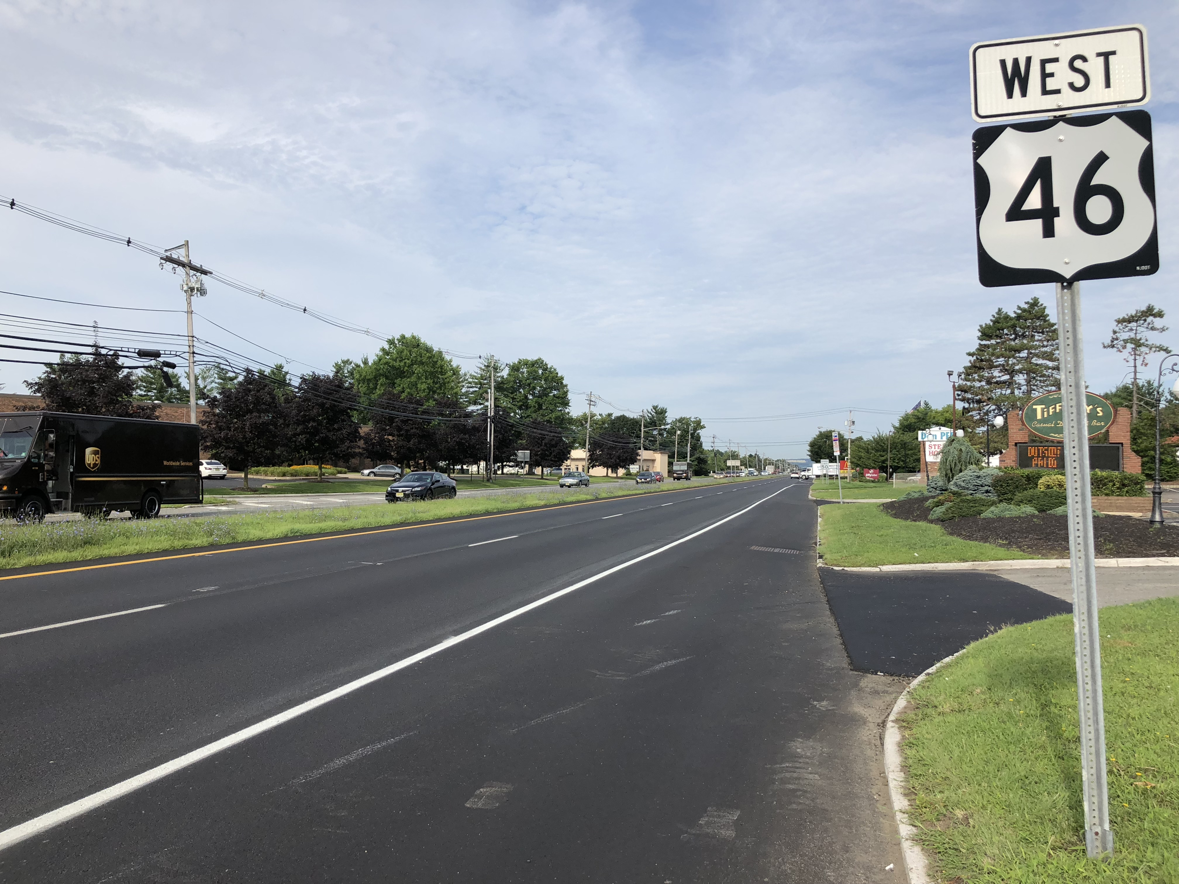 View west along U.S. Route 46 just west of Chapin Road in Montville Township, Morris County, New Jersey